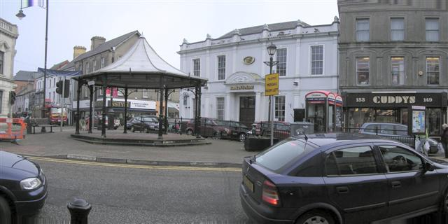 Ballymena Town The building with the white fasçade is the bank of Ireland.